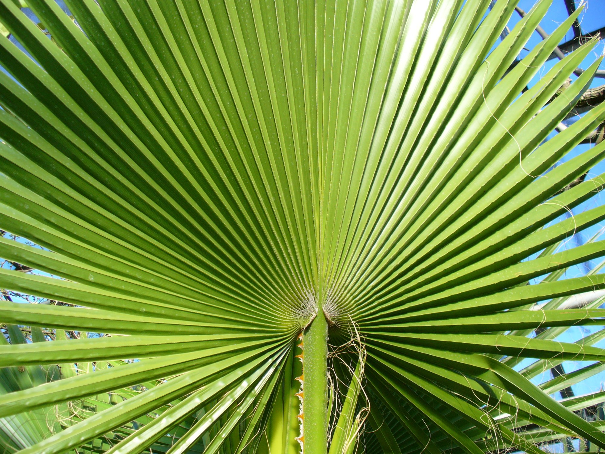 Washingtonia filifera, frond